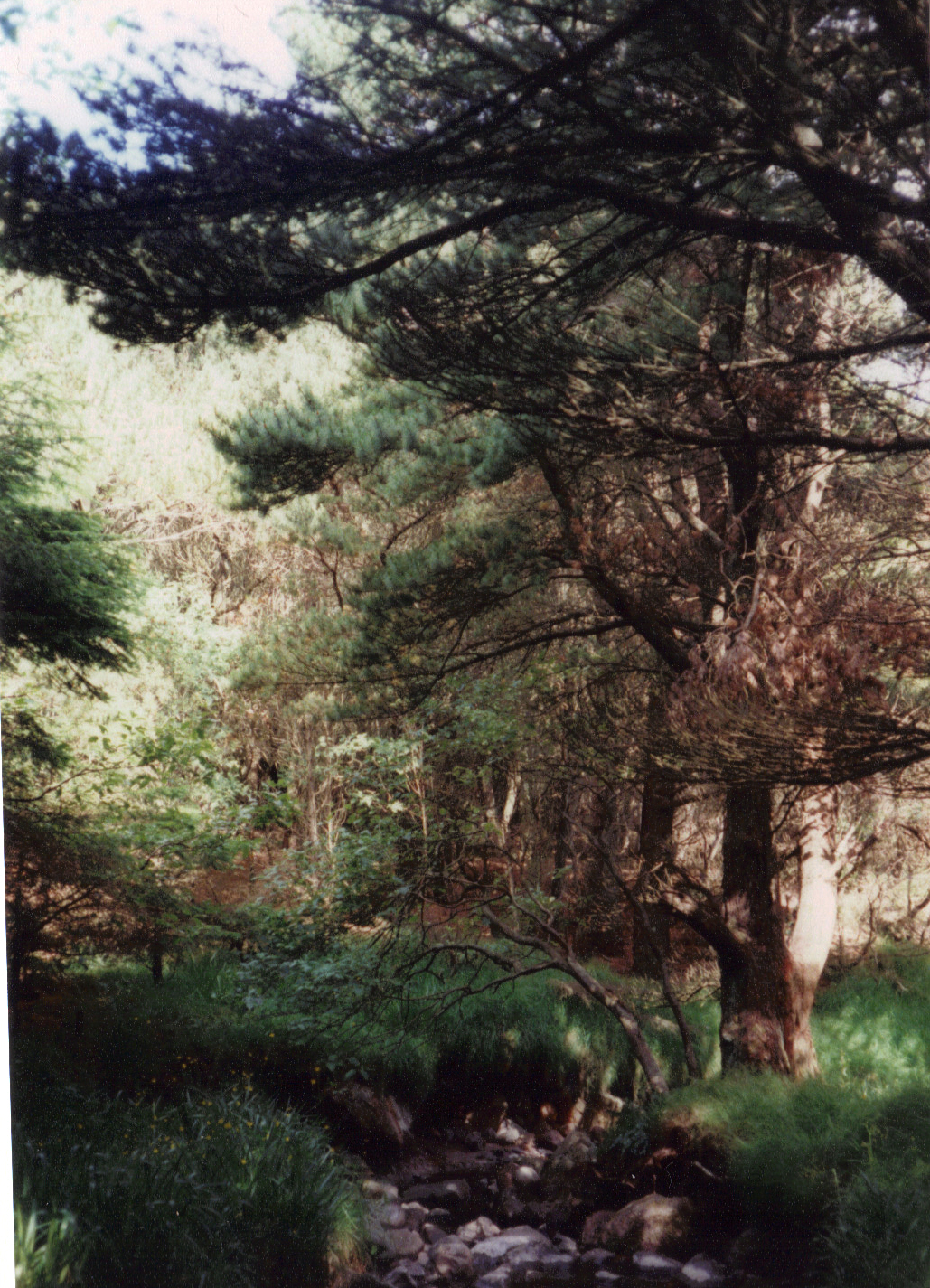 Forest in Trongisvágur